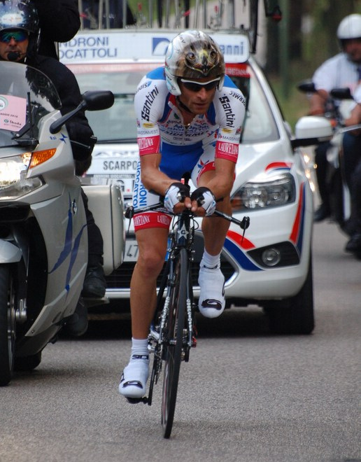 Michele Scarponi